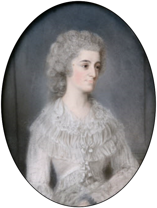 Portrait of Betty Incledon (born 1738), daughter of the antiquarian Benjamin Incledon (1730-1796) of Pilton House, Pilton, Devon and wife of Thomas Rose Drew (1740-1815), of Wooton FitzPaine, and of The Grange, Broadhembury, Devon.